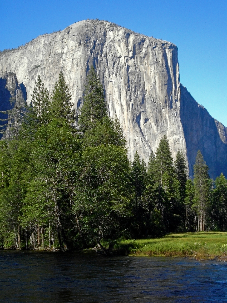 El Capitan in June 2010. Yosemite National Park